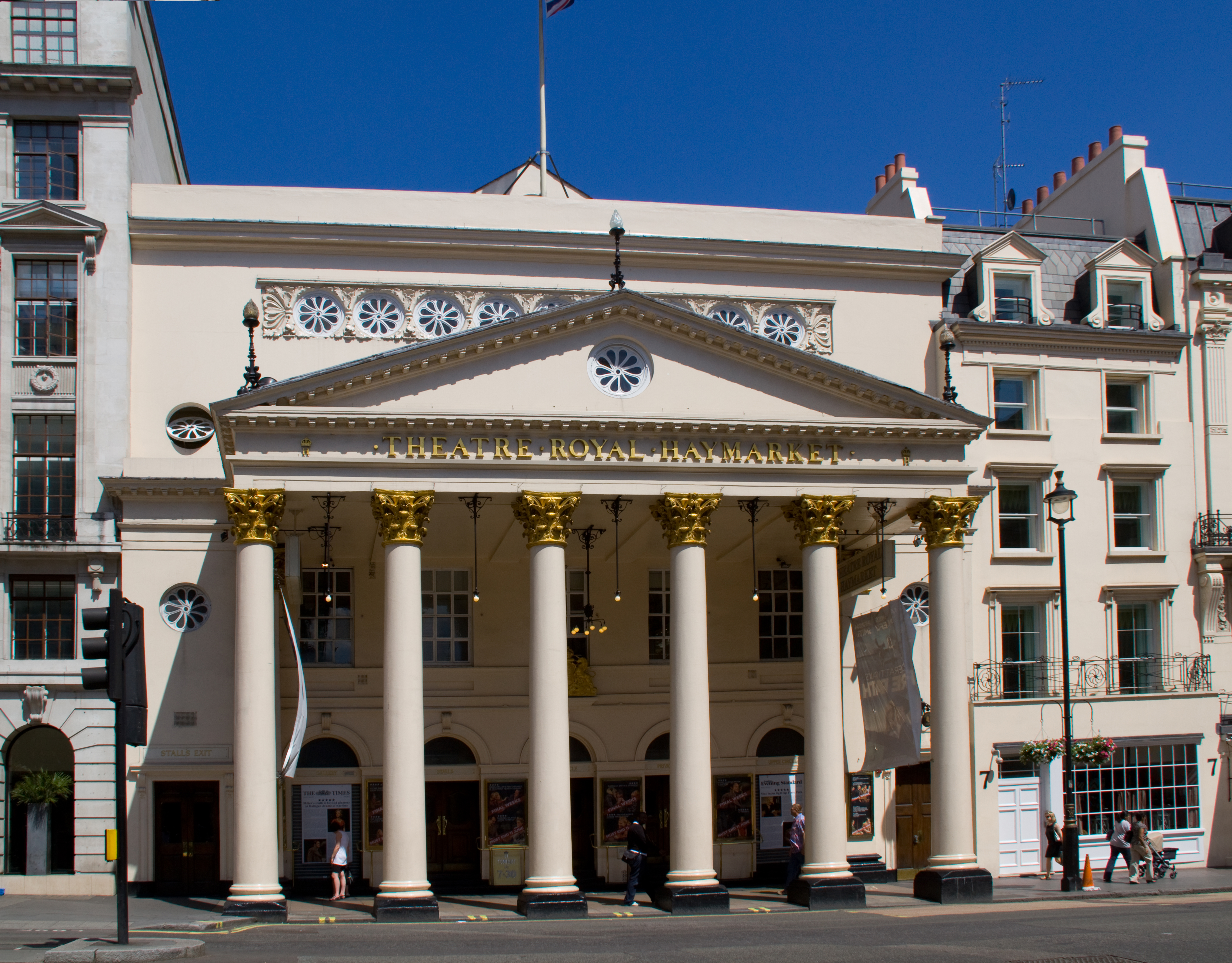 Theatre Royal Haymarket, London.